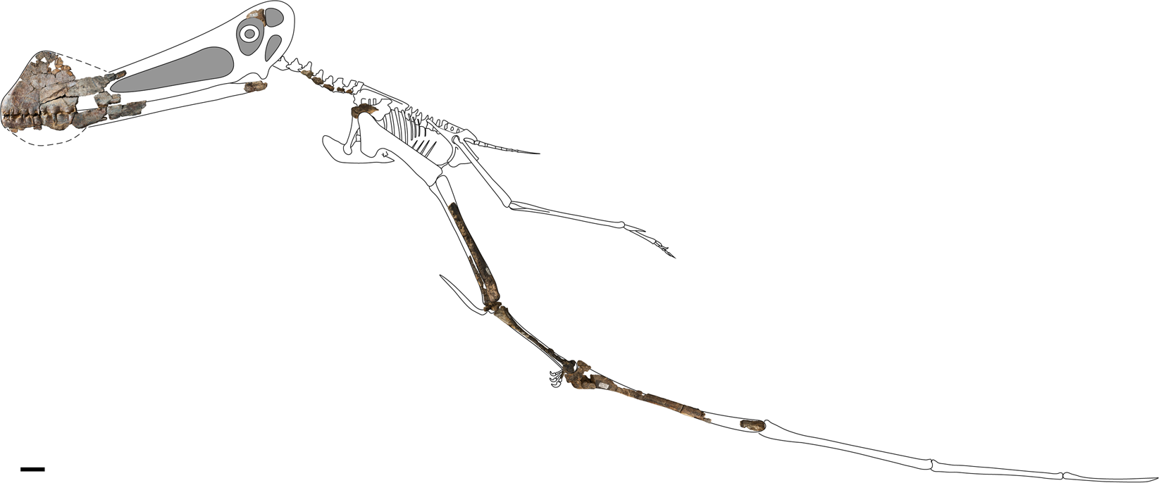 Ferrodraco lentoni gen. et sp. nov. holotype specimen AODF 876. All preserved elements were photographed and scaled to the same size, then articulated where possible. These were then used as the basis for the scaling of the skeletal reconstruction, the missing parts of which were based on the skeletal reconstruction of Tropeognathus mesembrinus by Mark Witton. Scale bar = 50 mm.